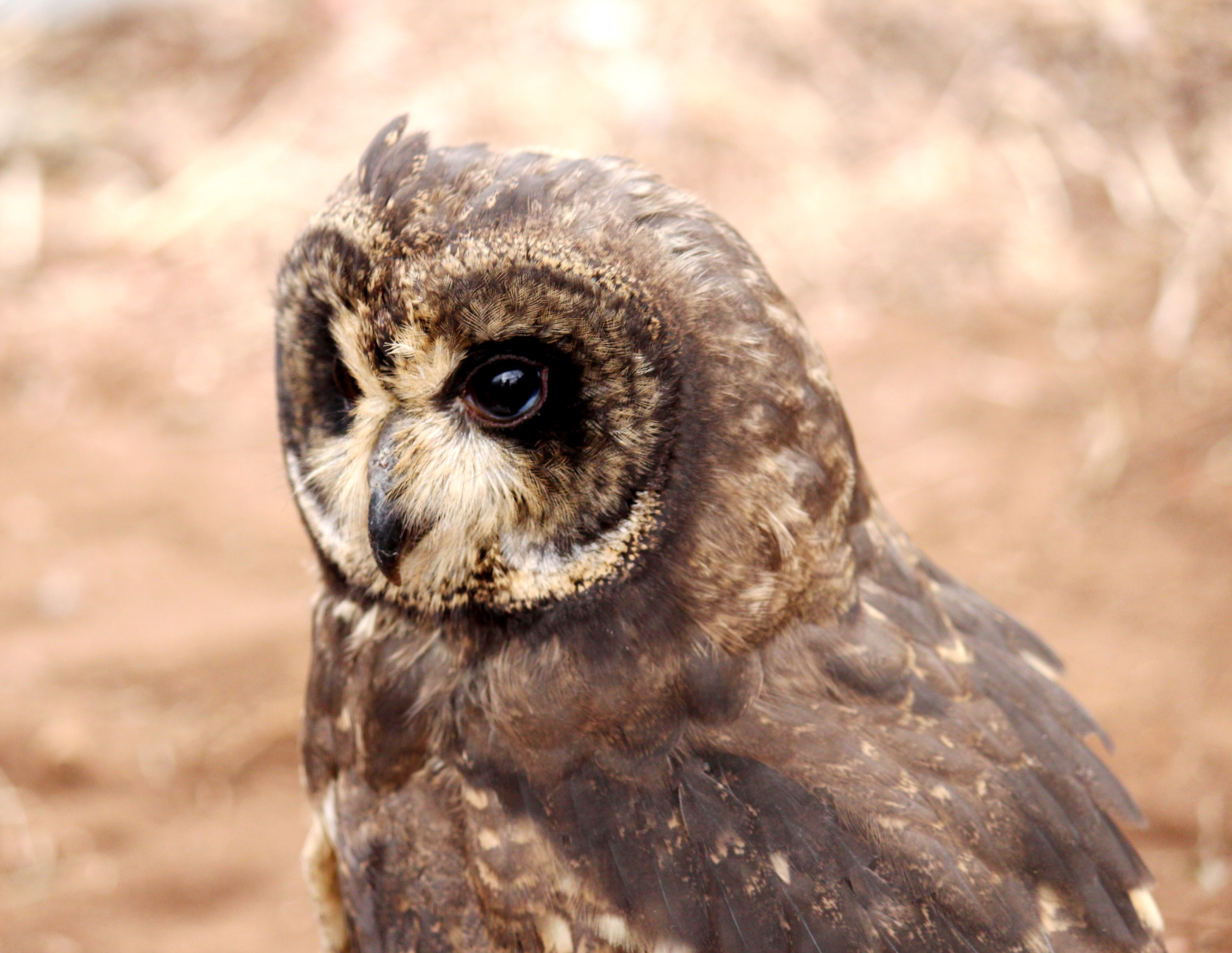 A Marsh Owl found nesting in the grass near a fire